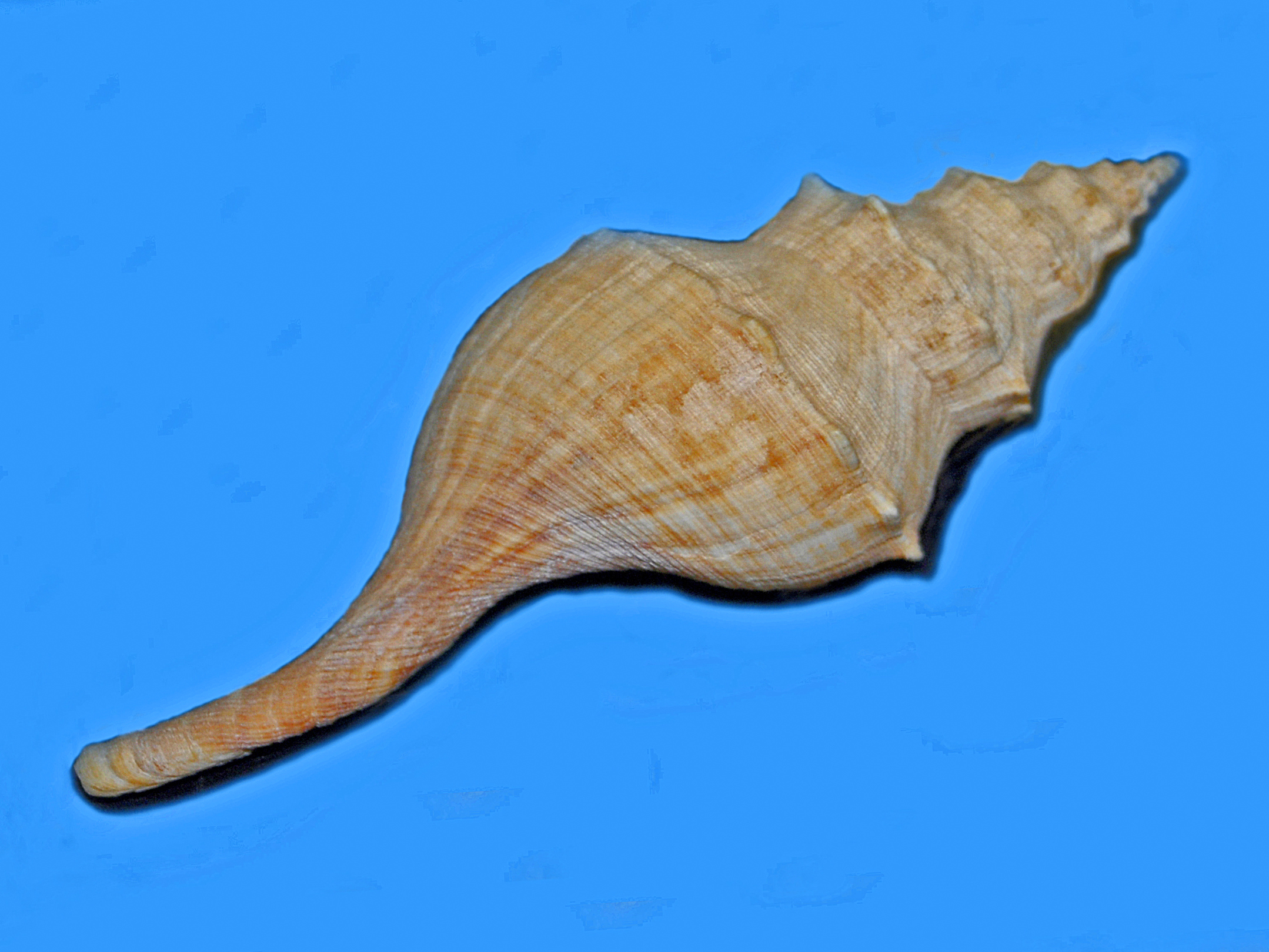 A shell of Fusinus colus.